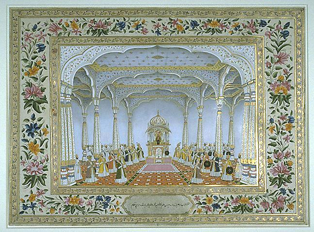 Shah Alam II (r.1759-1806) holds court, c.1780: *"The Royal Chamber in the Public Audience Hall in the Middle of Yazdah Darreh, with the Ruler, Alam Bahador Badshah, and the Great Commanders, a page from the Lady Coote Album, circa 178p; with ZOOM capabilities*